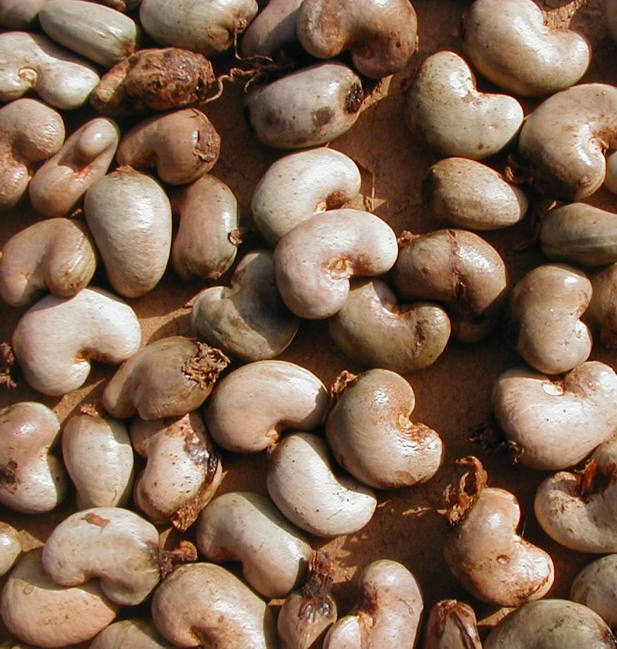 Cashewnuts, photographed in Goa, India.